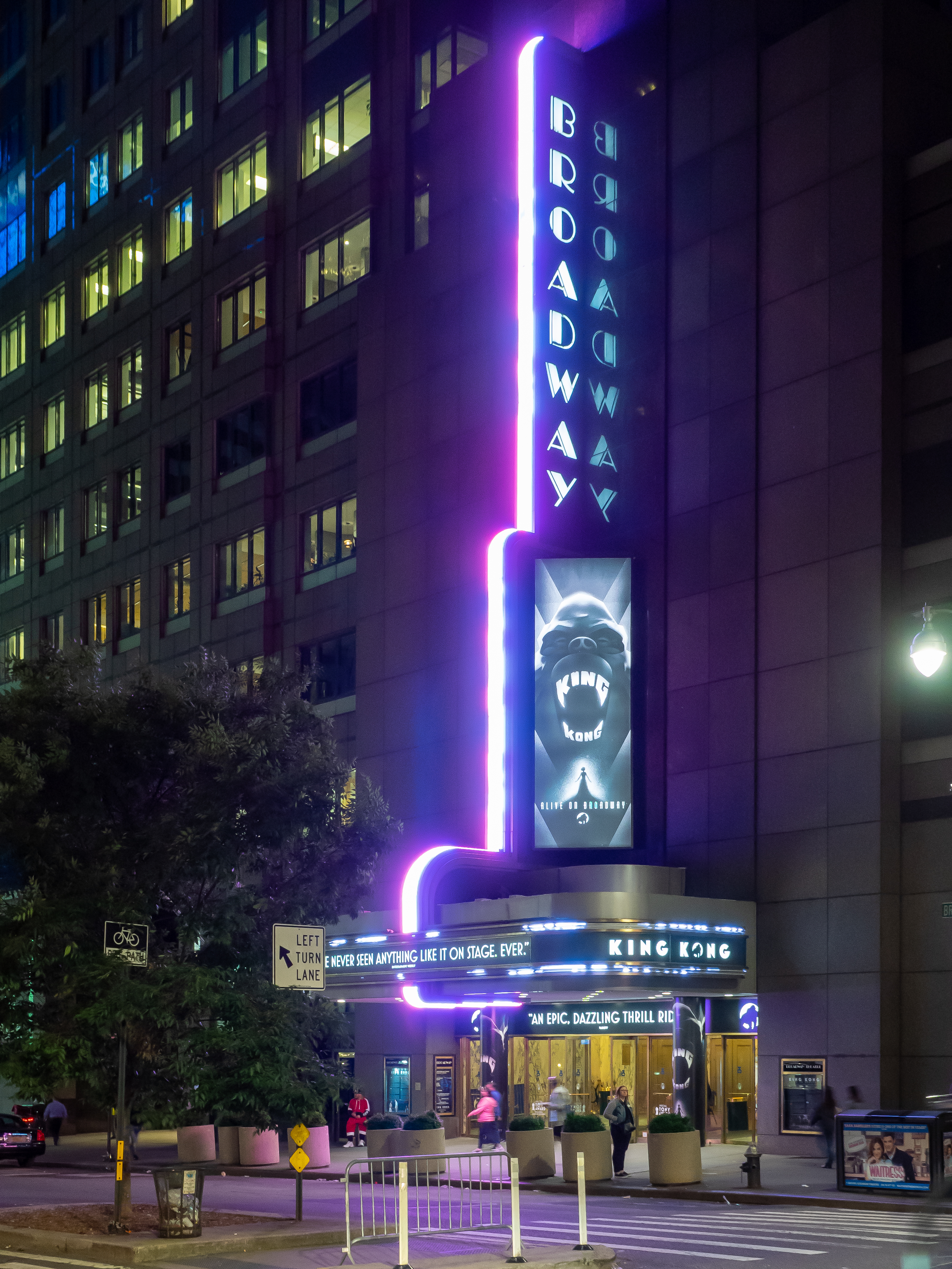 July 2019